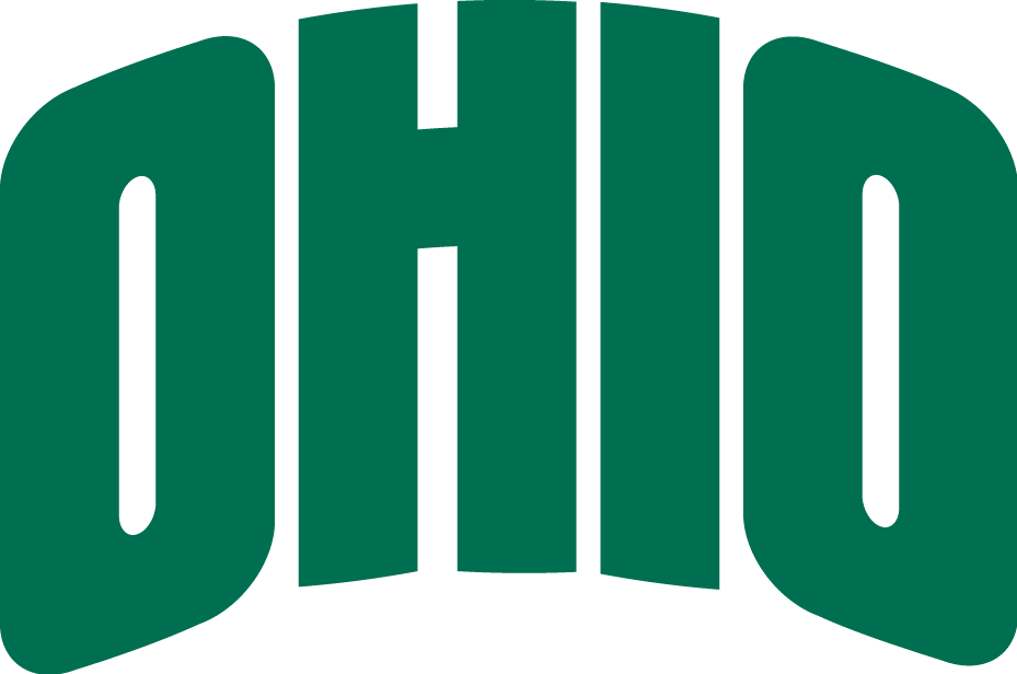 Wordmark for the Ohio Bearcats.